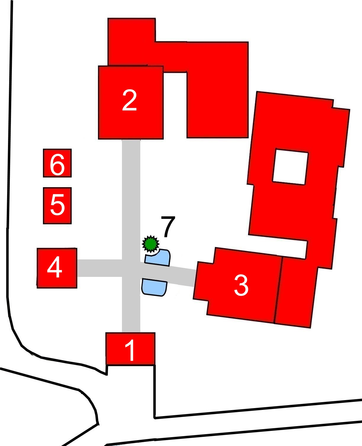 Layout of Ryôzen-ji (Naruto), Pref. Tokushima, Japan